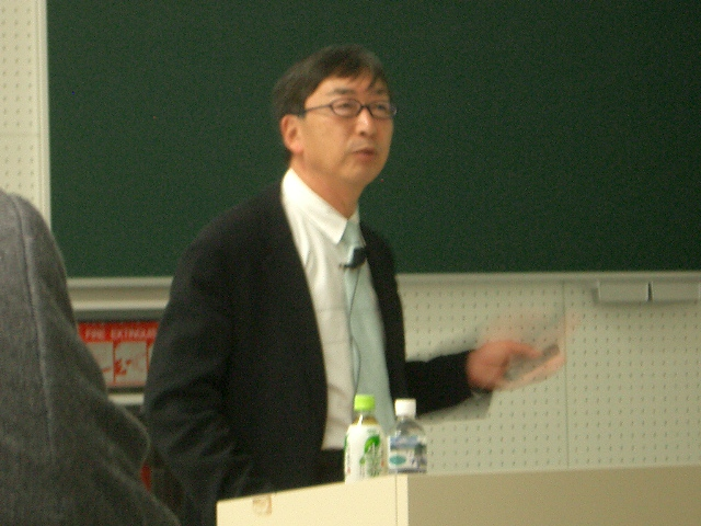 Toyo Ito at CAADRIA 2006